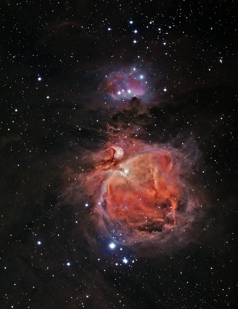 M42 - The Great Orion Nebula, taken from the observatory in Elmira. Image is a composite of an RGB image taken in February 2010 using a modified Canon Rebel XT camera and a Hydrogen Alpha image (as a luminance layer) taken in February 2012 with the QHY9 CCD Camera. Ha image is composed of three images with total exposures of 2 hours, 30 minutes and 10 minutes - for maximum dynamic range due to the extremes of bright and dark areas in this region.